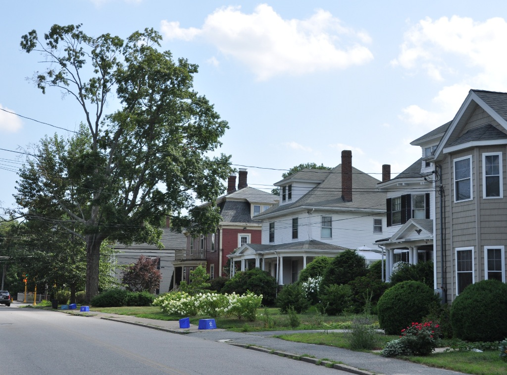 A street scene in the Lyman Street Historic District in Waltham, Massachusetts.